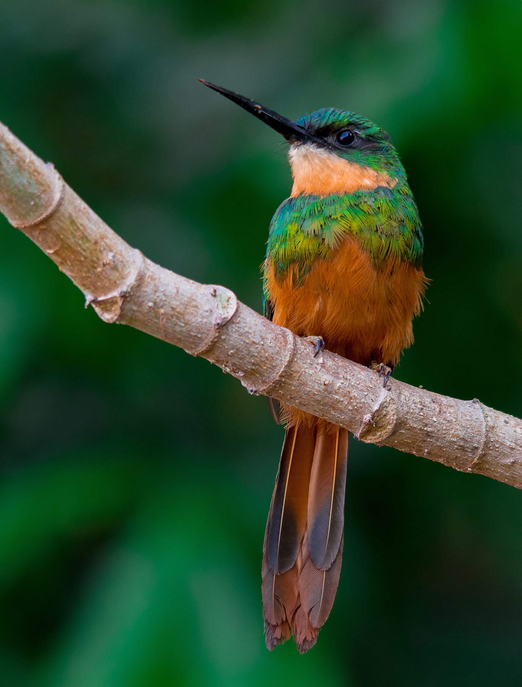 Rufous-tailed Jacamar (Galbula ruficauda) sitting in a Cecropia branch, scouting some flying insects nearby, at Parque das Nações Indígenas, Campo Grande, MG, Brazil.